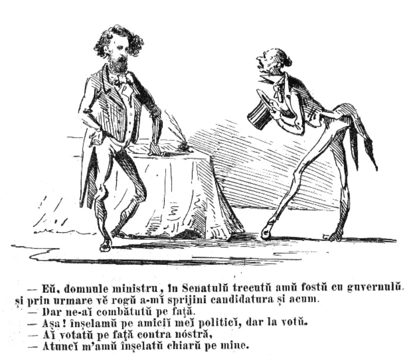 Panel one of the cartoon Senato-filĭ și senato-fagĭ ("Senatophiles and Senatophagi"), featuring Ion Brătianu, Romania's interior minister and behind-the-scenes leader of the liberal majority, being courted by an unnamed, servile, senator. The dialogue references the political crisis which prompted Brătianu to dissolve Senate and call in early elections: —Eŭ, domnule ministru, în Senatulŭ trecutŭ amŭ fostŭ cu guvernulŭ și prin urmare vĕ rogŭ amĭ sprijini candidatura și acum. —Dar ne-aĭ combătutŭ pe față. —Așa! înșelamŭ pe amiciĭ meĭ politicĭ, dar la votŭ... —Aĭ votatŭ pe față contra nóstră. —Atuncĭ m'amŭ înșelatŭ chiarŭ pe mine. That is: —Minister sir, in the past Senate [legislature] I was for the government and therefore I plead with you to support my candidacy this time as well. —But you were publicly against us. —Well yes! I was duping my political friends, but otherwise, when it came to voting... —You voted against us, openly. —Well then I was duping myself as well.